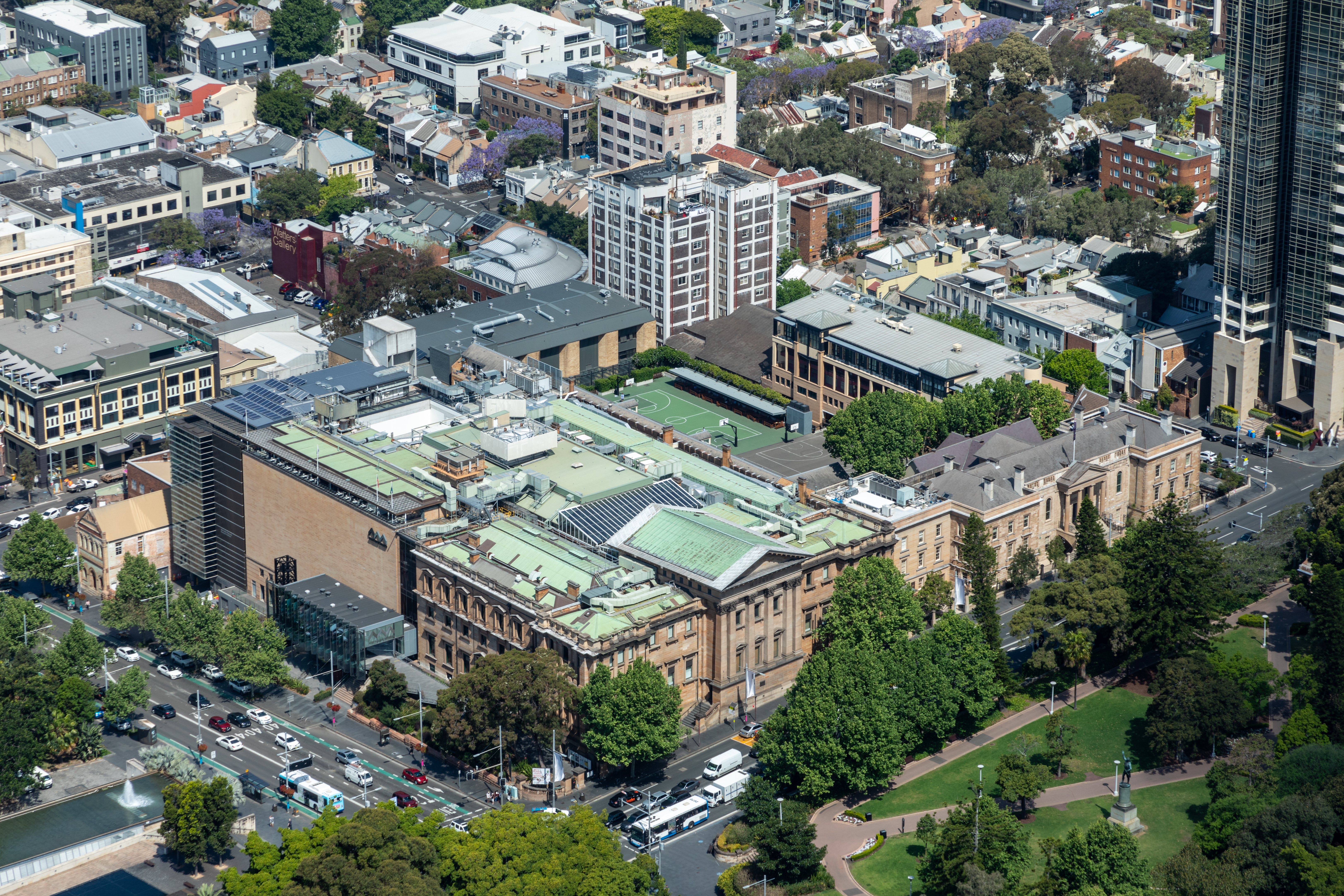 View from Sydney Tower to the Australian Museum, Sydney, New South Wales, Australia